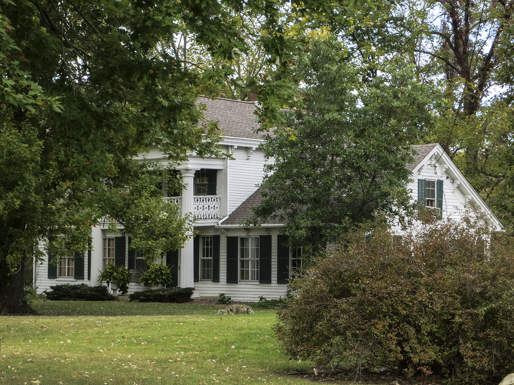 Samuel Sharp House, 7436 Horseshoe Rd., west of Ashley Marlboro Township